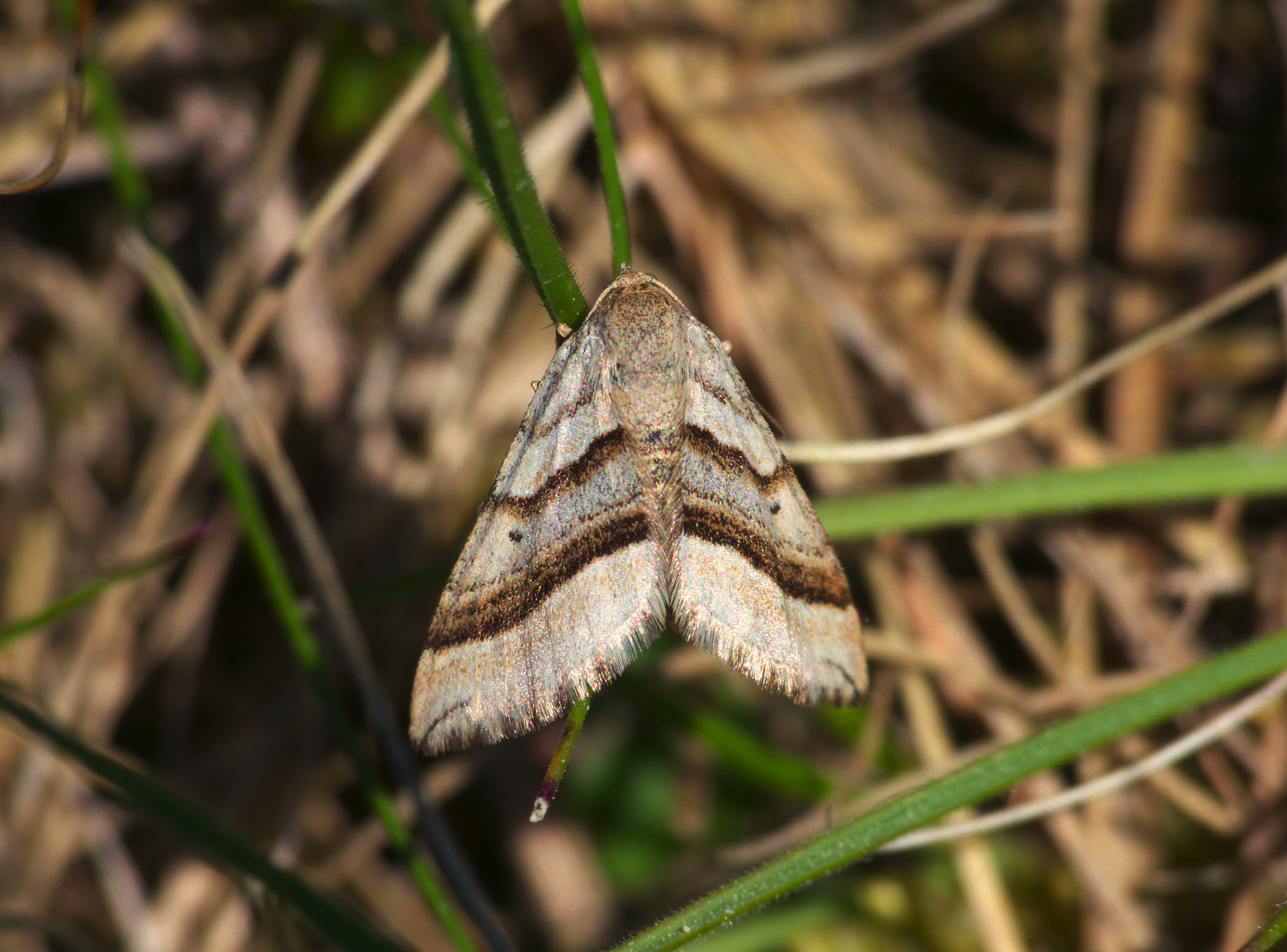 Cranwich Camp, Norfolk. Abundant at this site.